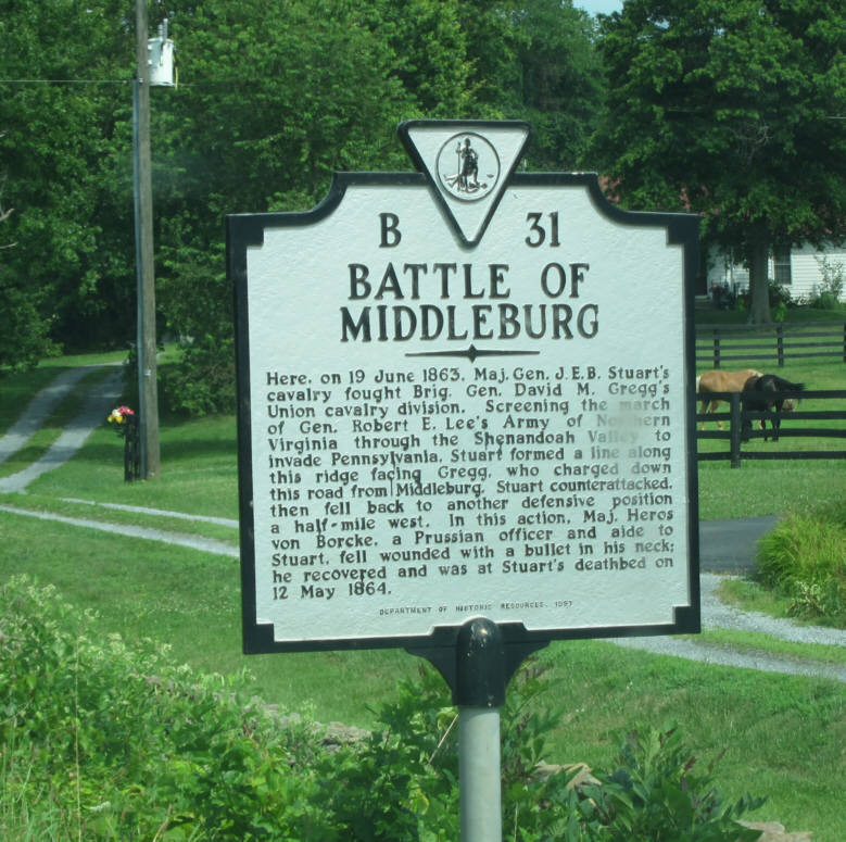 landmark commemarating the battle in which heros von Borcke was injured